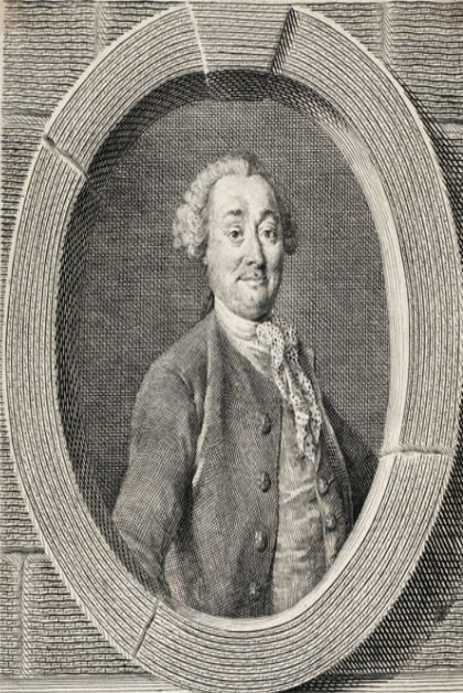 Engraving of Ludvig Ferdinand Rømer by G. V. Baurenfeind based on painting by